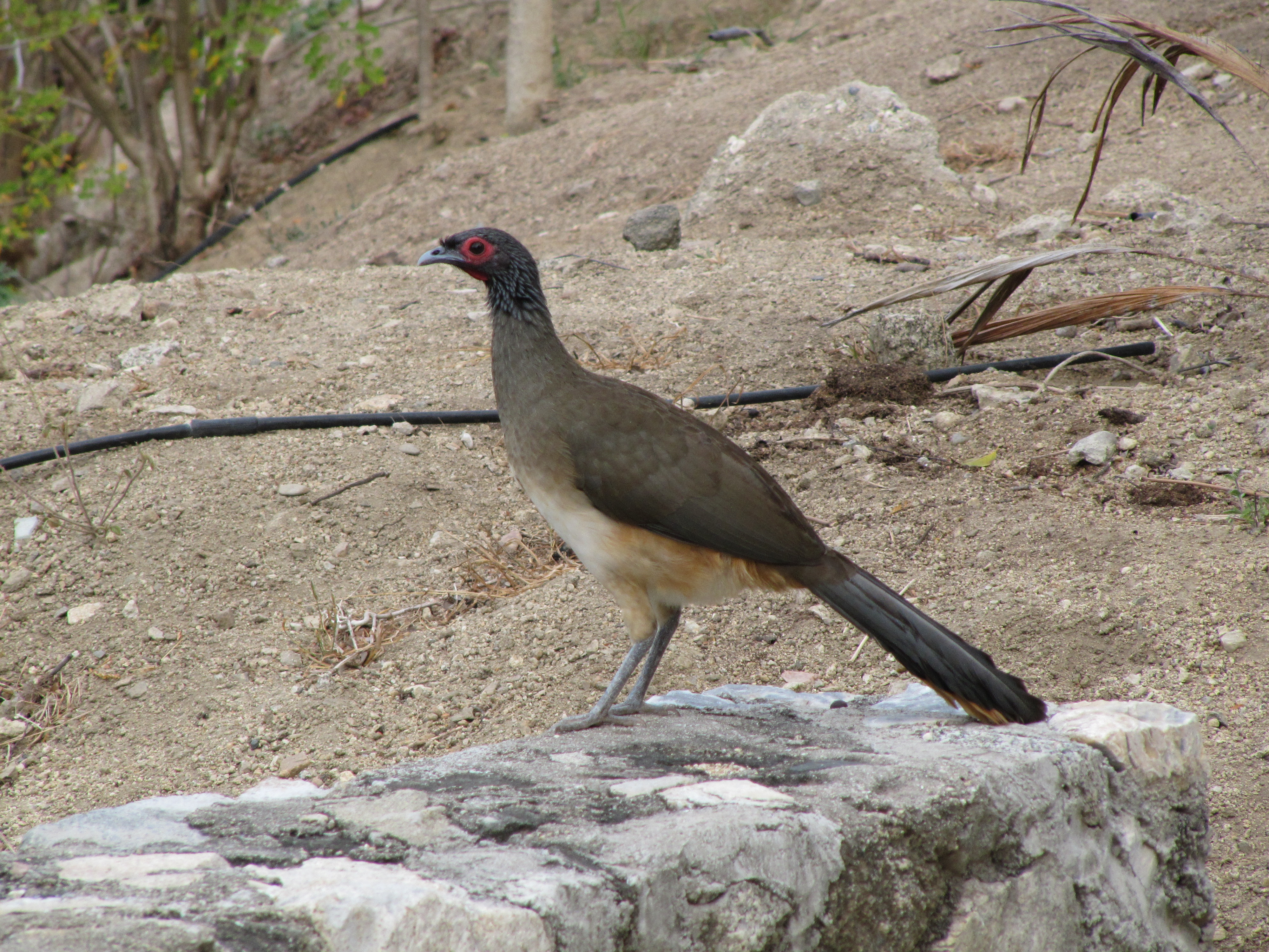 A West Mexican Chachalaca in Huatulco, Mexico.